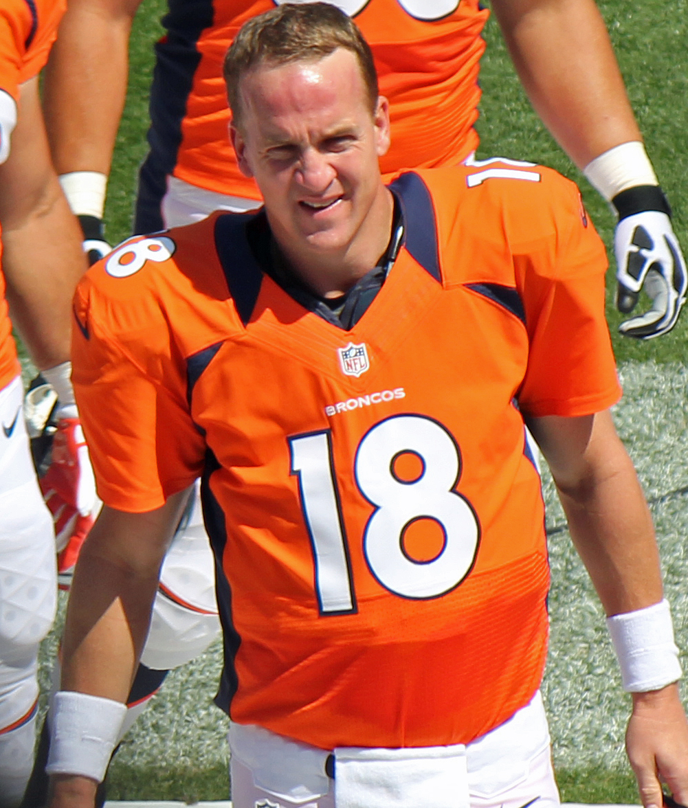 Peyton Manning on August 26, 2012.